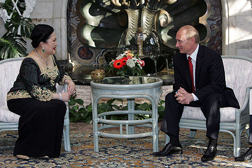 THE KREMLIN, MOSCOW. With Queen Sirikit of Thailand.